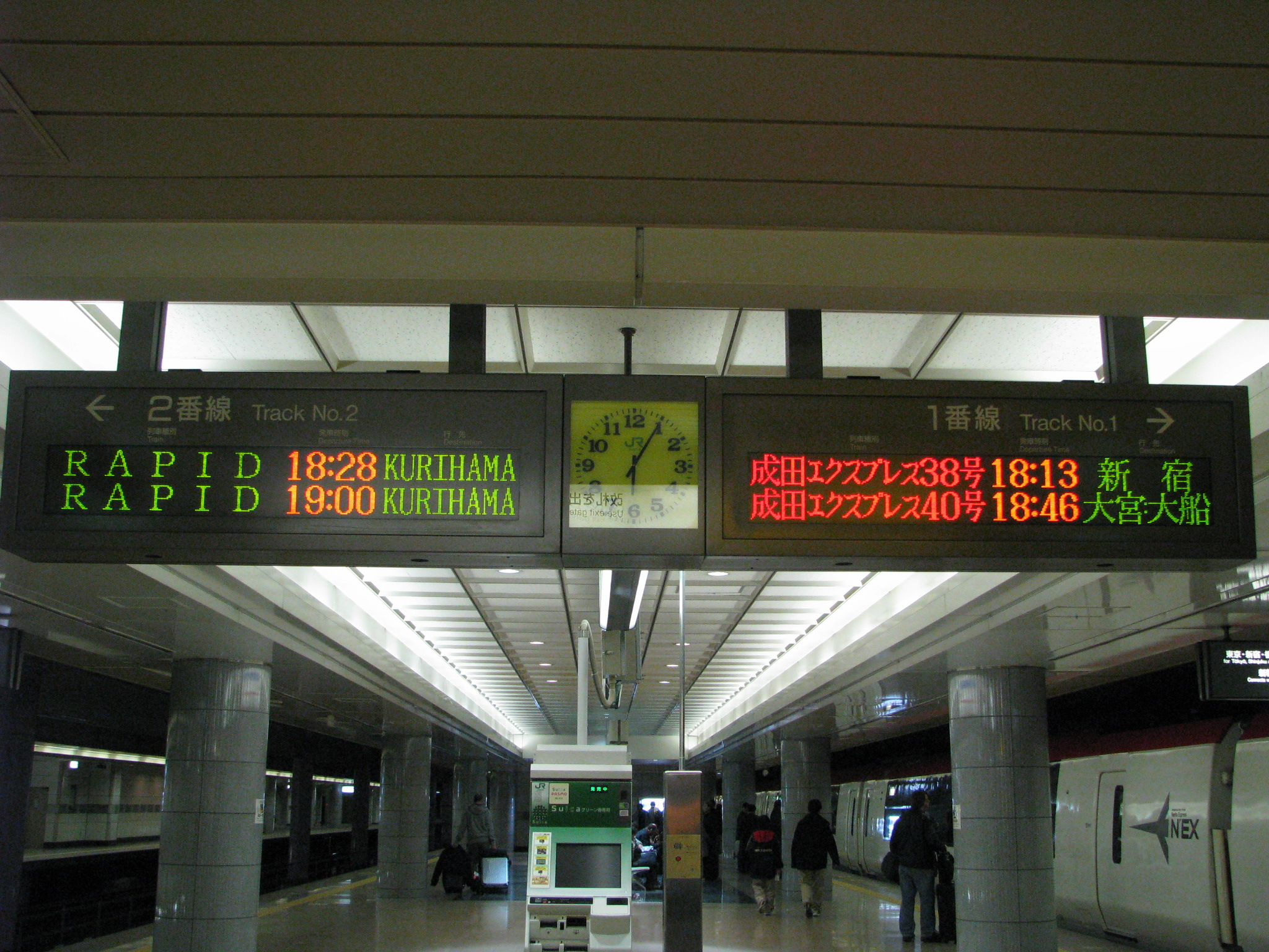 Narita Airport Station(Terminal 1 / 成田空港駅).